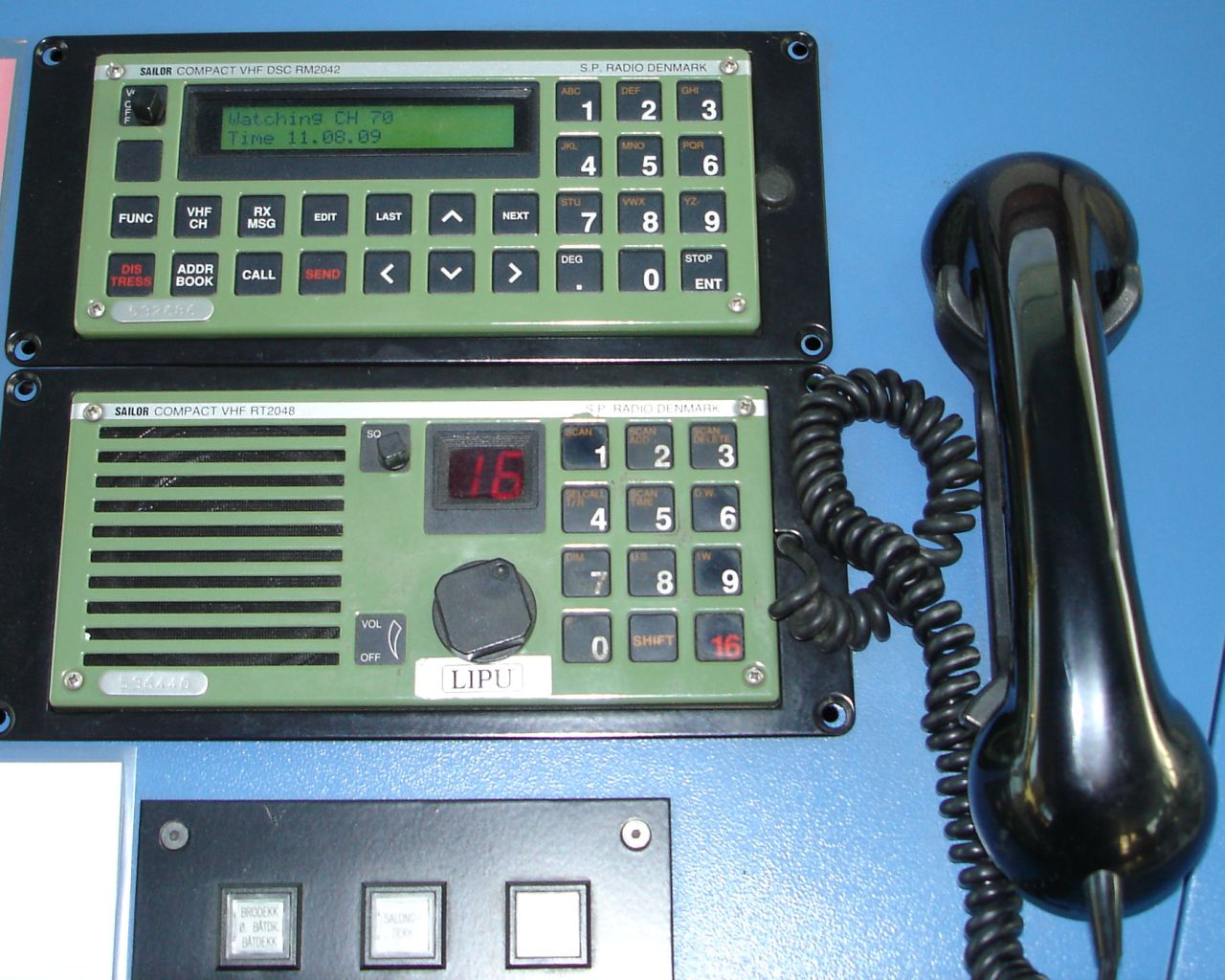 A maritime type VHF radio, with channel 70 DSC watch receiver. Taken onboard the ferry Bastø 2 by Ulf Larsen.